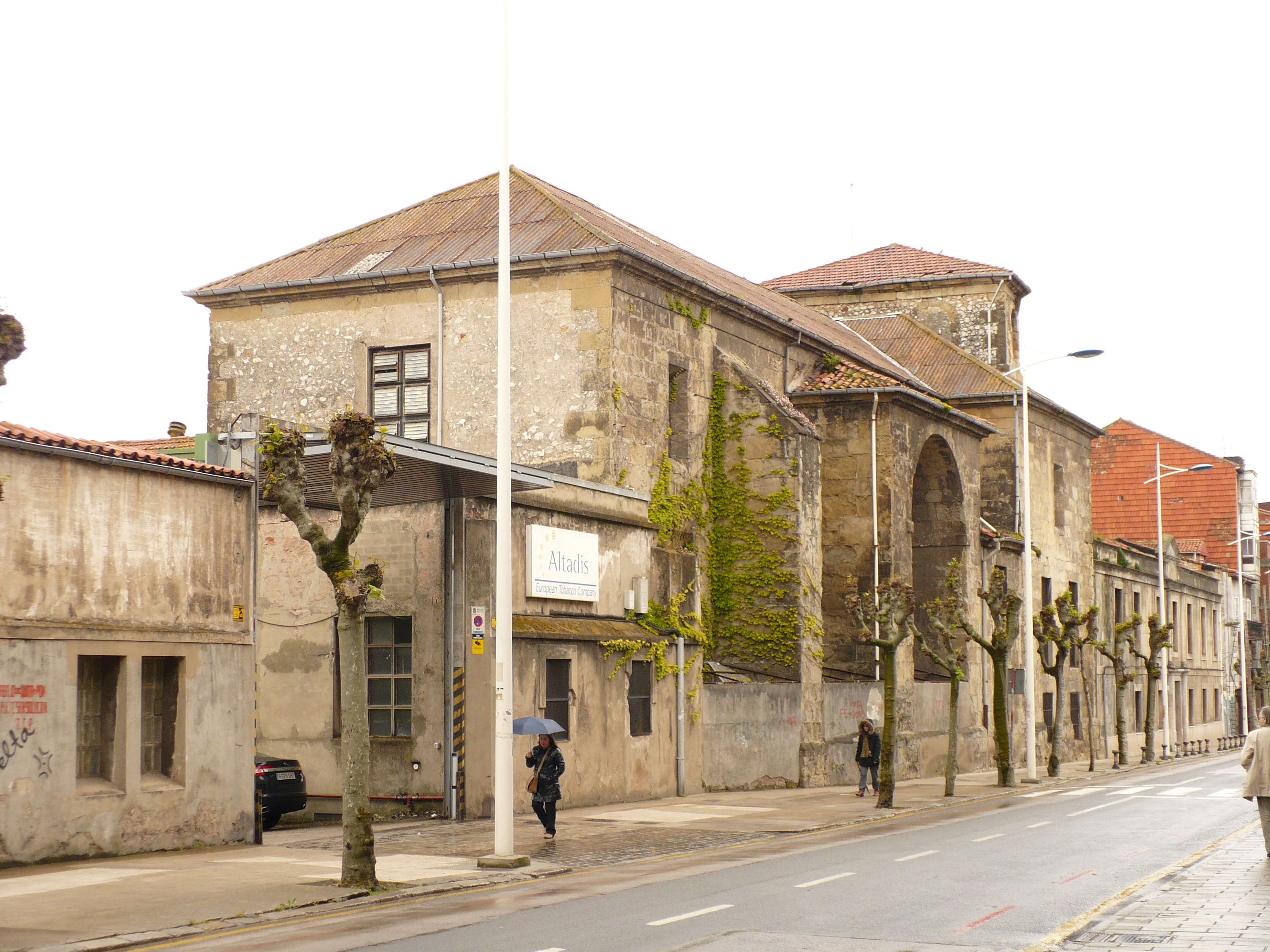 Tabacalera building (former monastery in Santander, Cantabria)